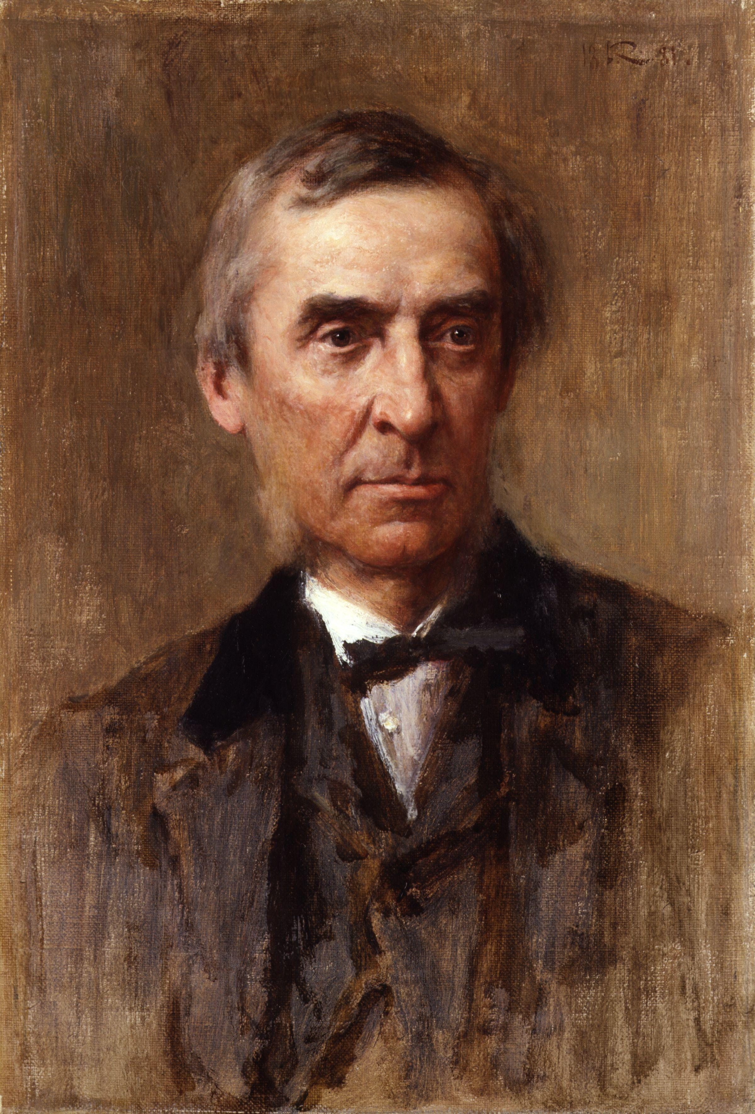 James Anthony Froude, by Sir George Reid (died 1913). All images in this batch have been confirmed as author died before 1939 according to the official death date listed by the NPG.